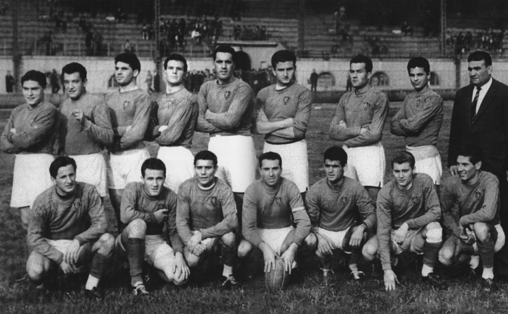 A lineup of Fiamme Oro Rugby, the team that won the Italian league in 1958. From right to left, standing: Ricci, Navarrini, Bellinazzo, Sguario, Vanni, Dondi, Giani, Catarinicchia, head coach Mario Battaglini. Crouched: Erri, Biadene, O. Bettarello, Fronda (capt), Annicchiarico, R. Luise, Maccagnan.